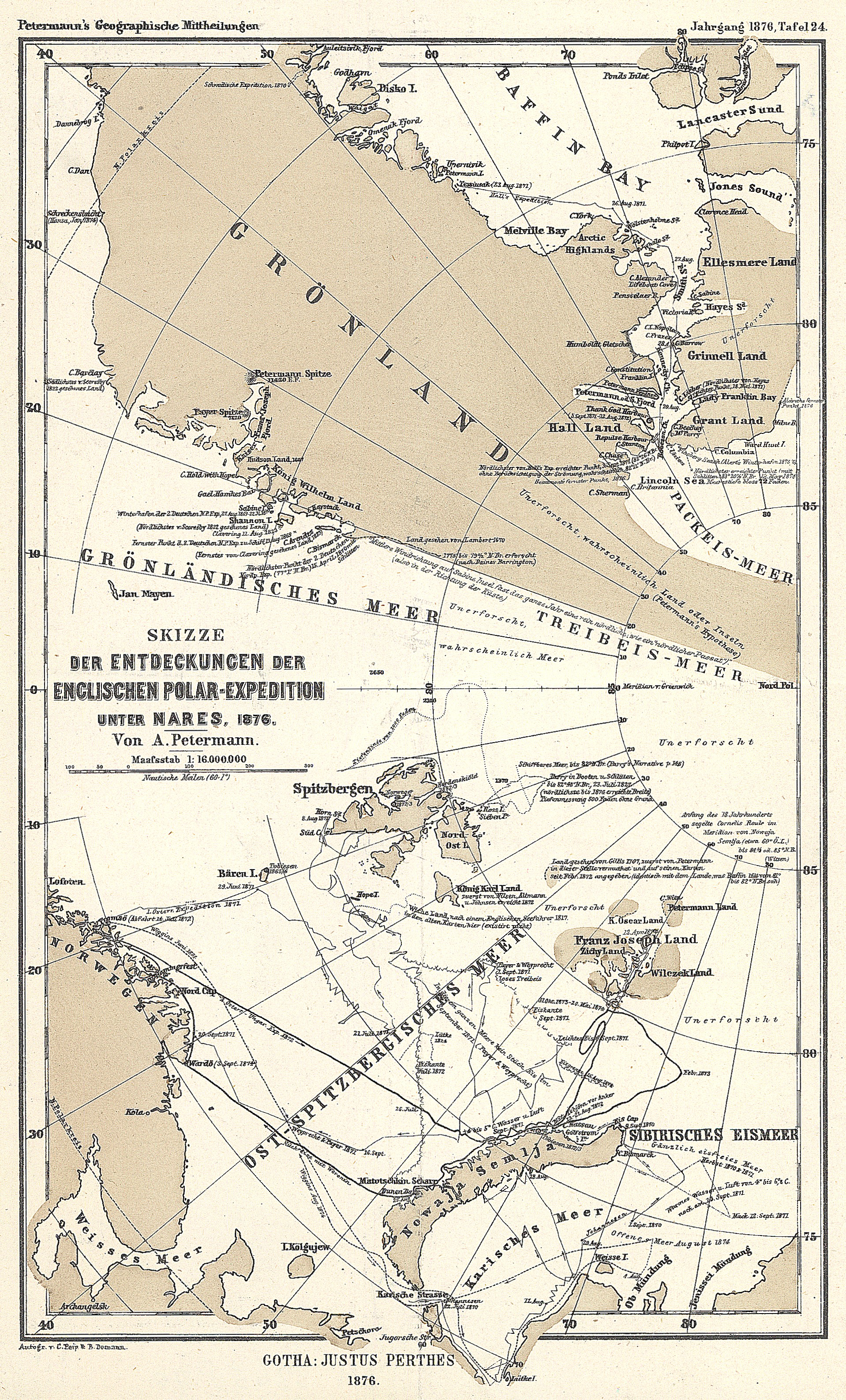 Scale 1:16.000.000 Published: Gotha, Justus Perthes